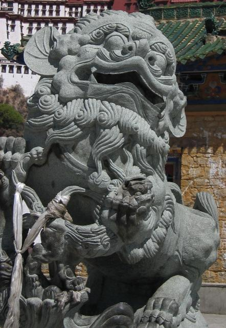 Large Chinese stone lion protects the entrance to the Potala Palace in Tibet. Chinese imitation of 15th century Tibetan lion gate guardian (Asian), created in the 1990's.